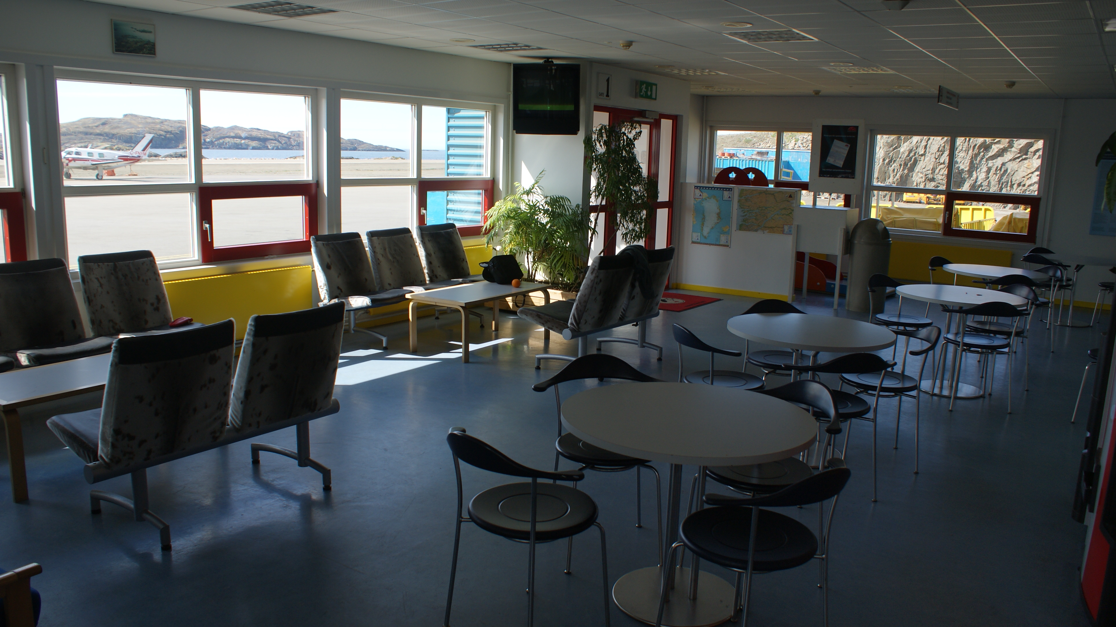 Sisimiut Airport, Greenland. Terminal waiting hall, its seats upholstered with seal fur. Football World Cup 2010 on TV.